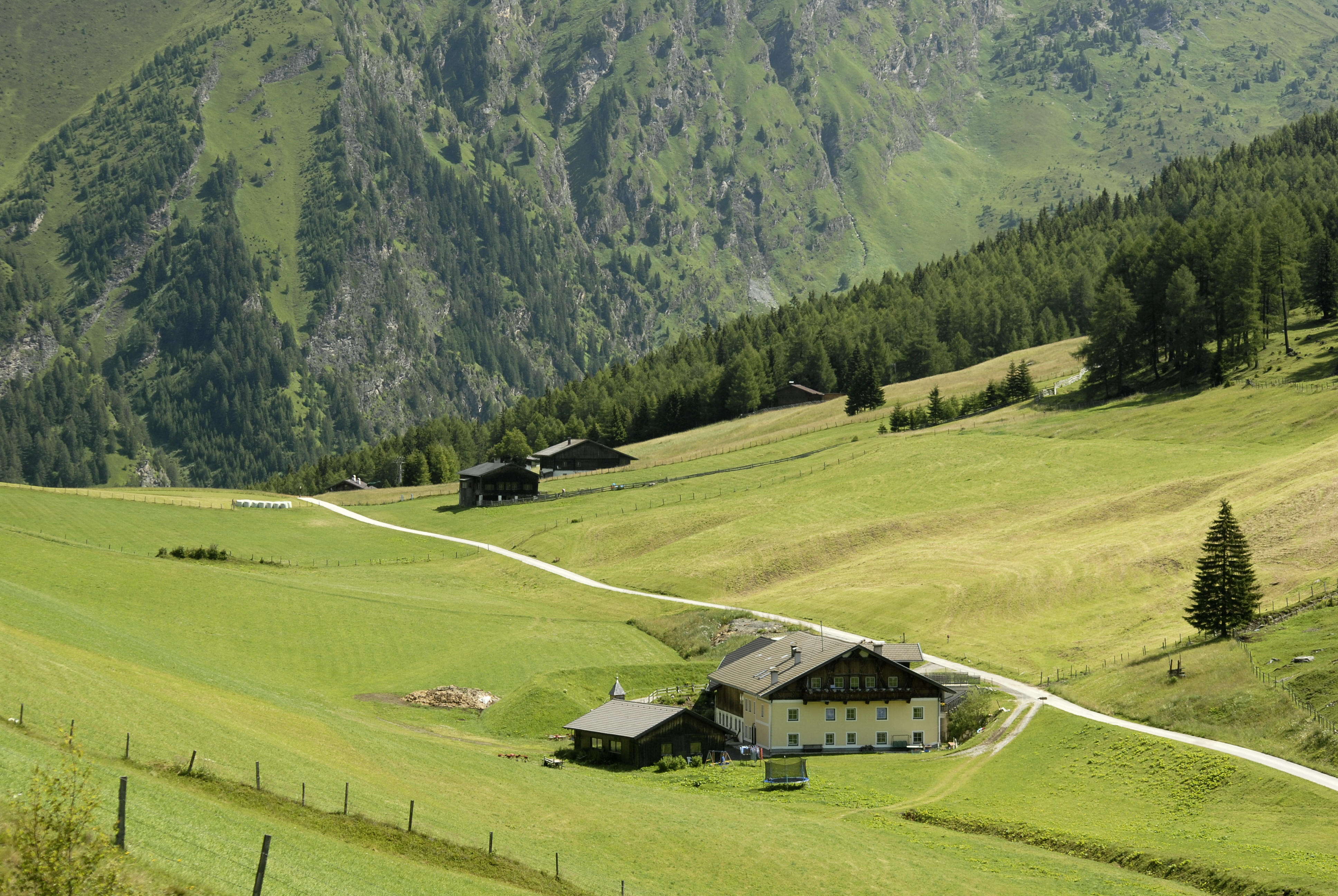 View on the Padauner Sattel